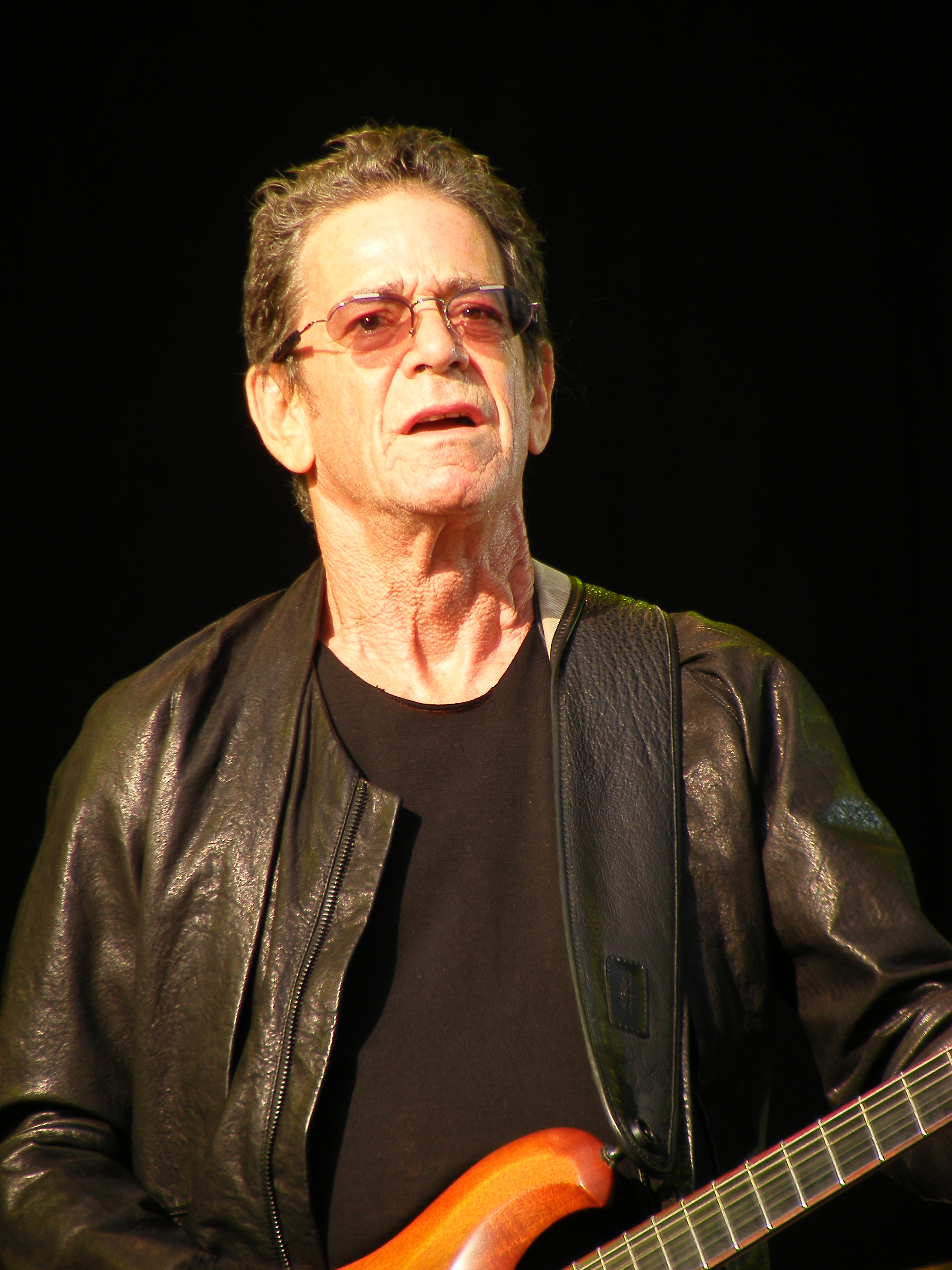 Lou Reed performing at the Hop Farm Music Festival on Saturday the 2nd of July 2011